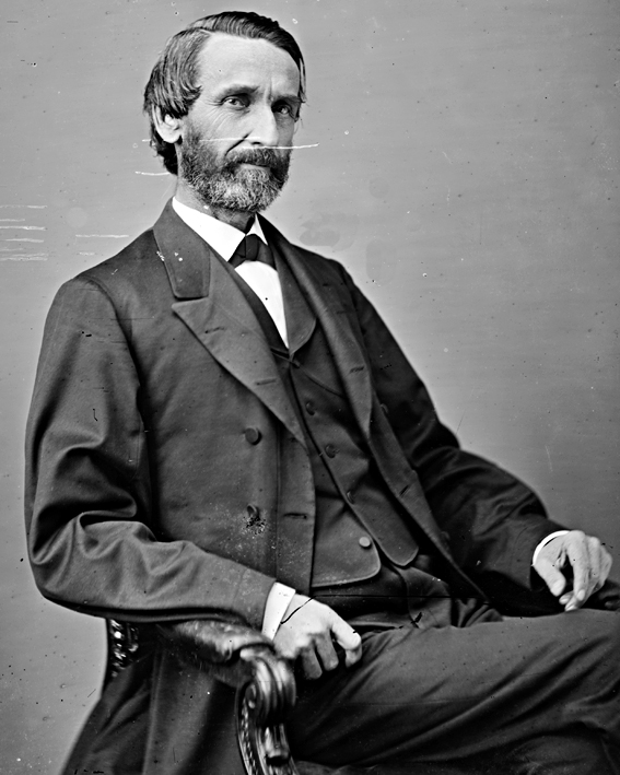 James C. Harper, US Representative from North Carolina